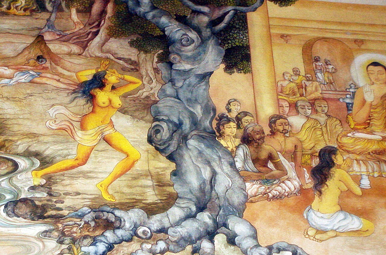 The painting depicts of Patachara (Patachara loses her husband and two Childre) in Dhammapada Location: in Srilangka Buddhist temple in SravasthiSravasti, India.